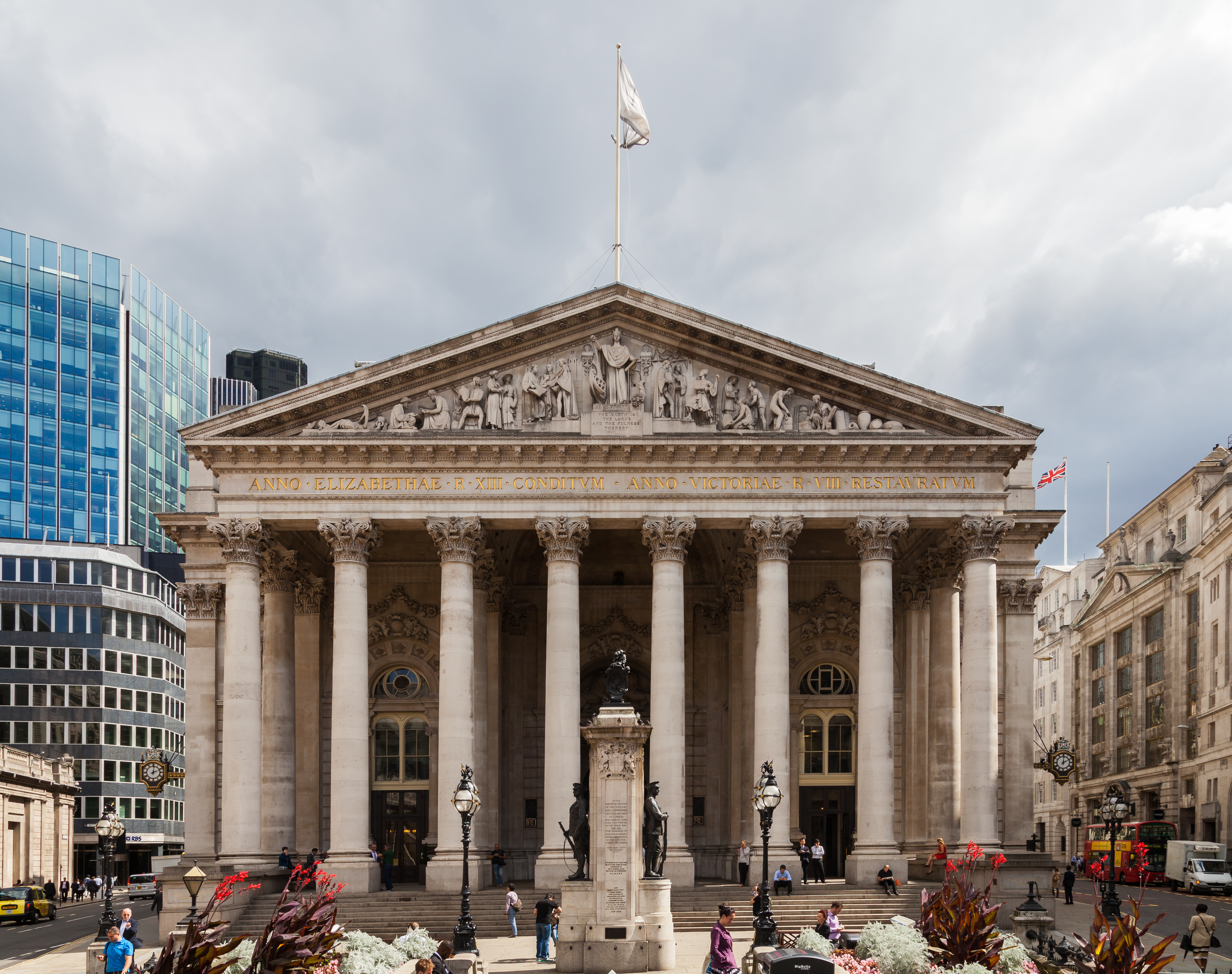 Stock exchange, London, England